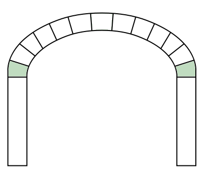 adaptation of from Amada44